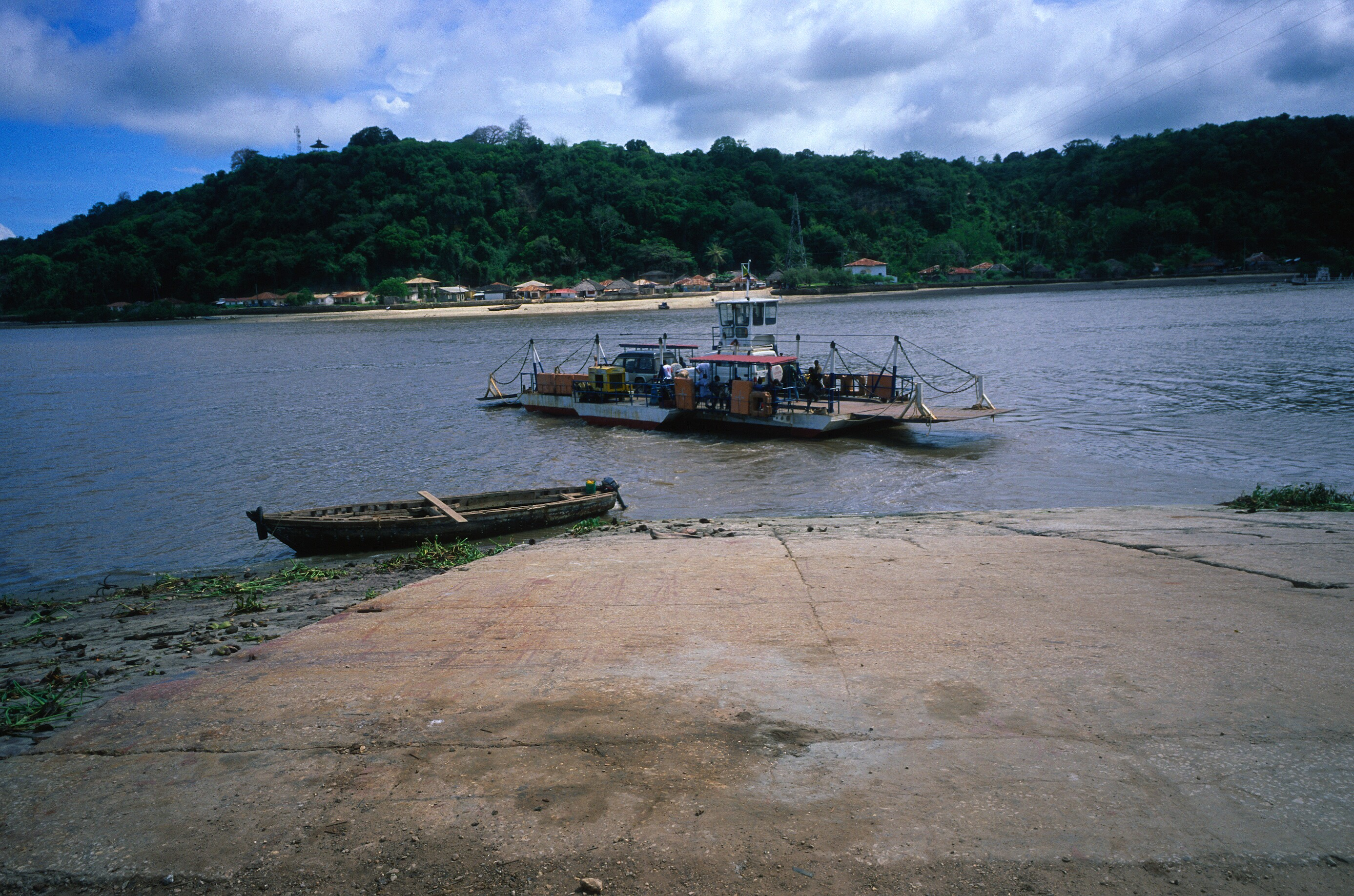 Pangani River mouth, Pangani, Tanzania